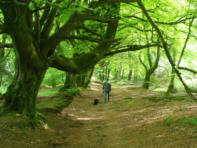 Track way Lewesdon Hill Old track way below the Roman fort of Lewesdon